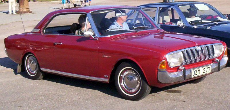 Ford Taunus 20 M TS